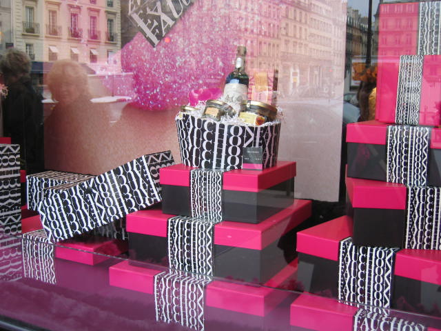 Photograph taken of Faunchon in Paris, December 2004